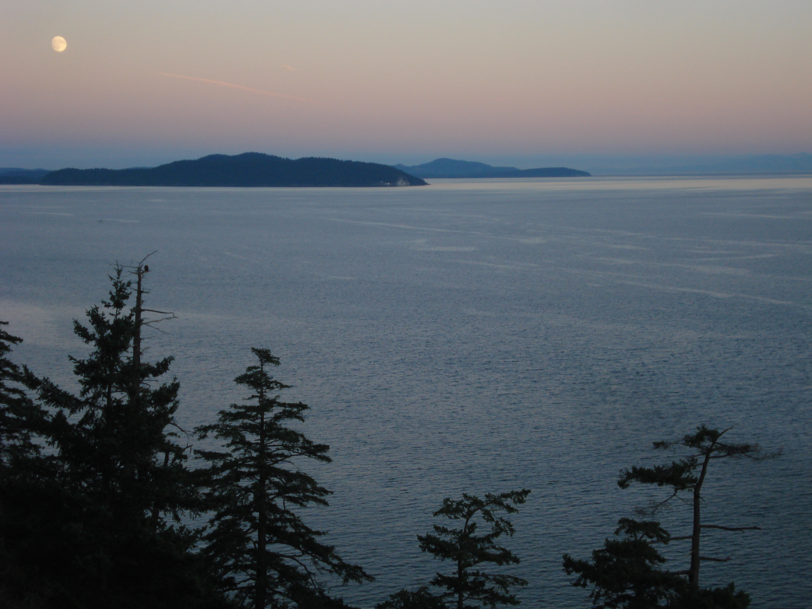 Southern Gulf Islands, BC, Canada